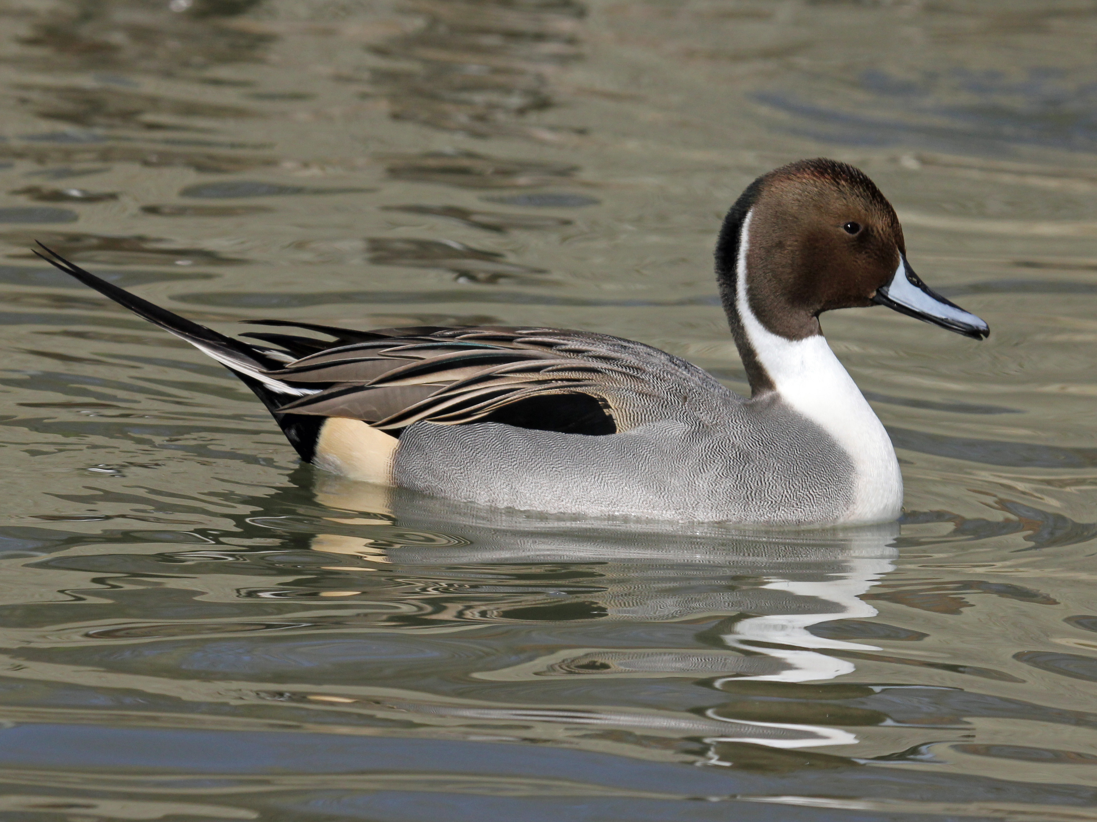 Northern Pintail (Anas acuta) - Sylvan Heights Waterfowl Park, Scotland Neck, North Carolina